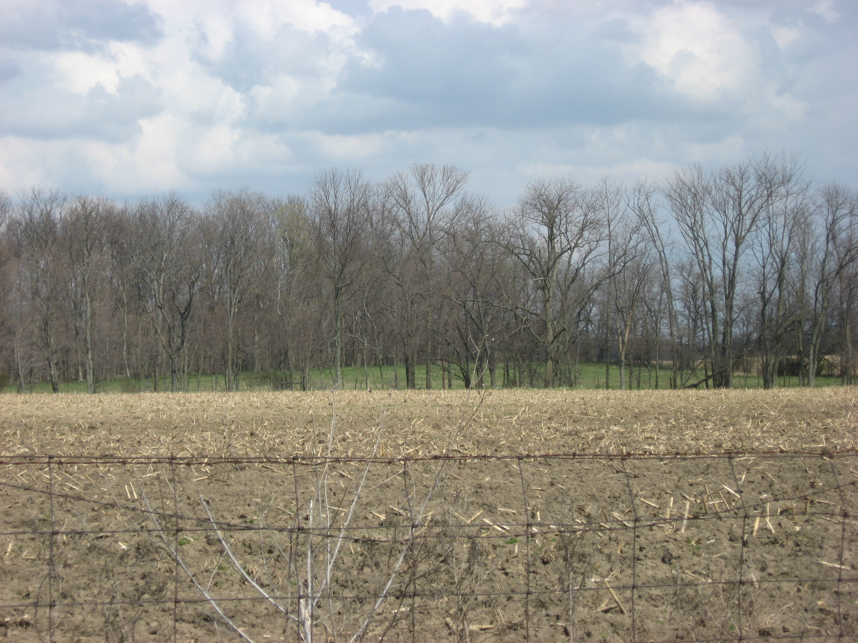 Looking northwest from McKay Road, west of Port William in Liberty Township, Clinton County, Ohio, United States. In the woods in the distance is the Keiter Mound, a burial mound built by the Hopewell culture and a significant archaeological site. It is listed on the National Register of Historic Places.